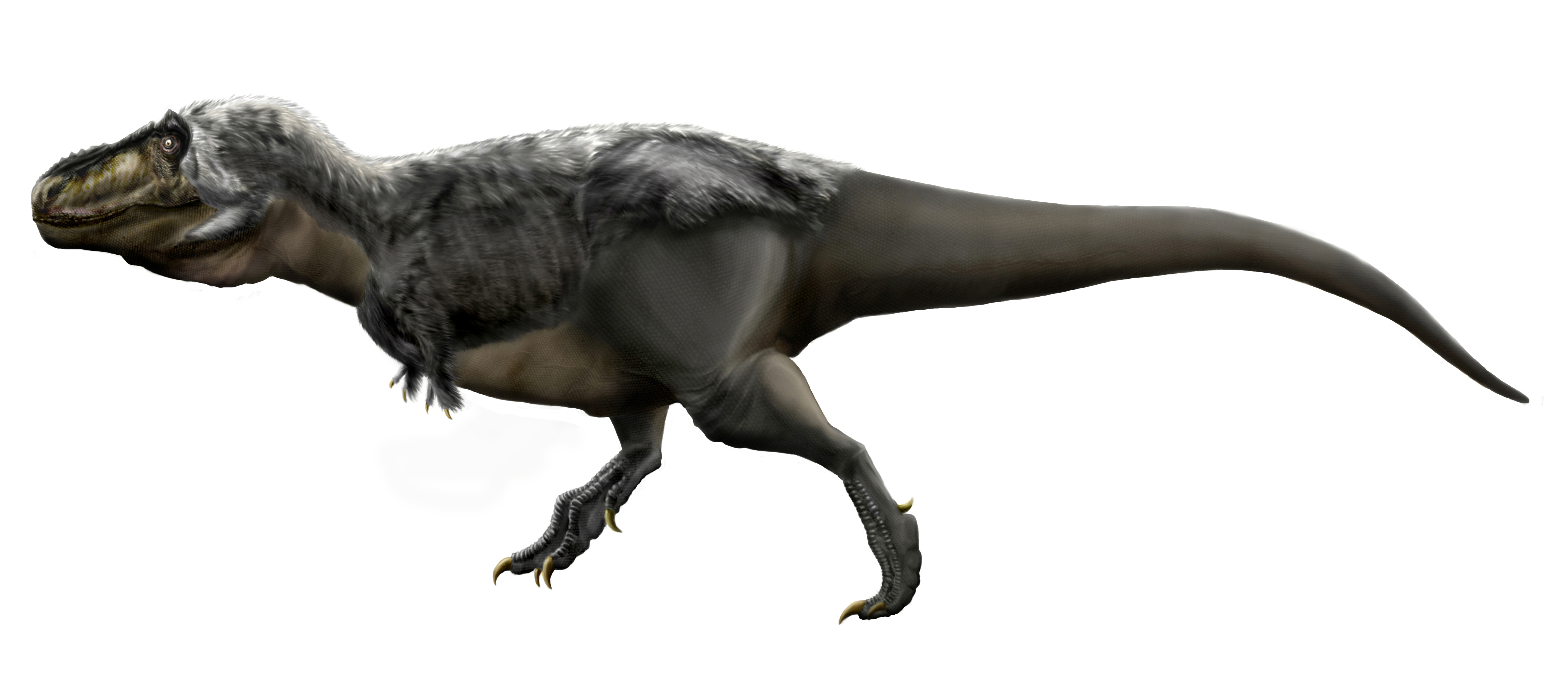 Illustration of the tyrannosaurid Tyrannosaurus rex.